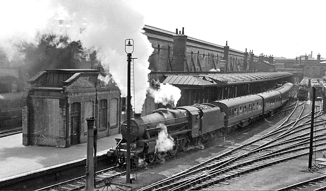 Leicester (London Road) Station, with train. View SW, over the Down side of the station; ex-Midland London St Pancras - Derby/Sheffield etc. main line, junction with secondary lines to Melton Mowbray and Peterborough, Rugby, Birmingham and Burton-on-Trent. Just leaving is the 12.25 stopping train to Corby via Melton Mowbray, headed by Stanier Class 5 4-6-0 No. 44985.